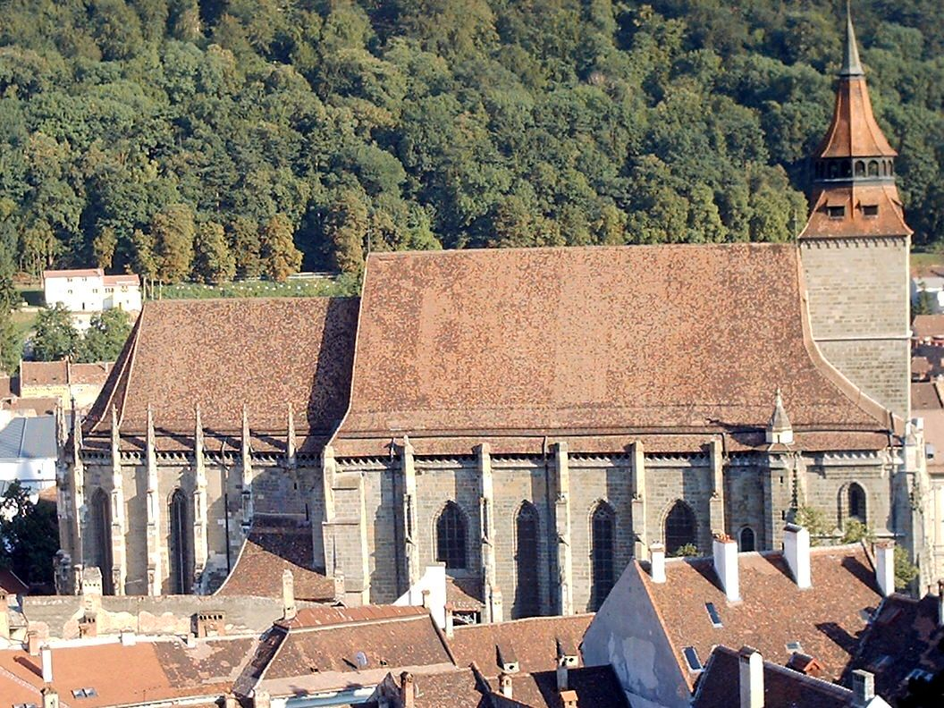 Black Church from Brasov (northen side)